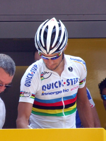 Picture taken by Stitchface in Tarbes.